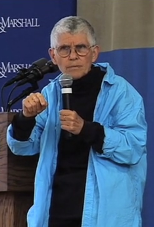 Cynthia Enloe, research professor in the International Development, Community, and Environment Department at Clark University, explores how military regimes exploit women's labor in producing goods like sneakers and garments. Recorded April 10, 2014, in Mayser Gymnasium.